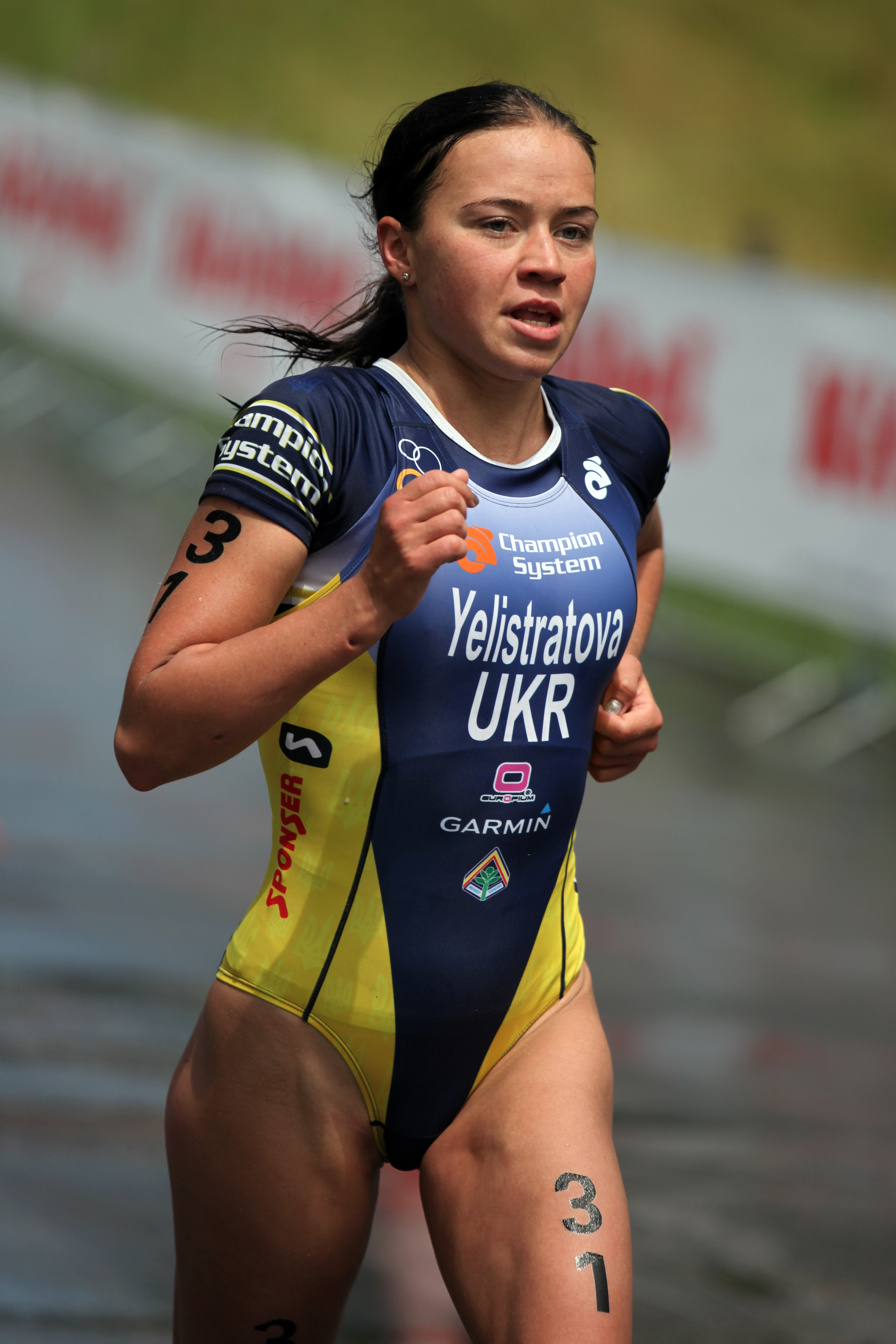 Yuliya Yelistratova (Sapunova), Ukrainian Юлія Єлістратова, Russian Юлия Елистратова, at the World Championship Series triathlon in Kitzbühel, 2011.